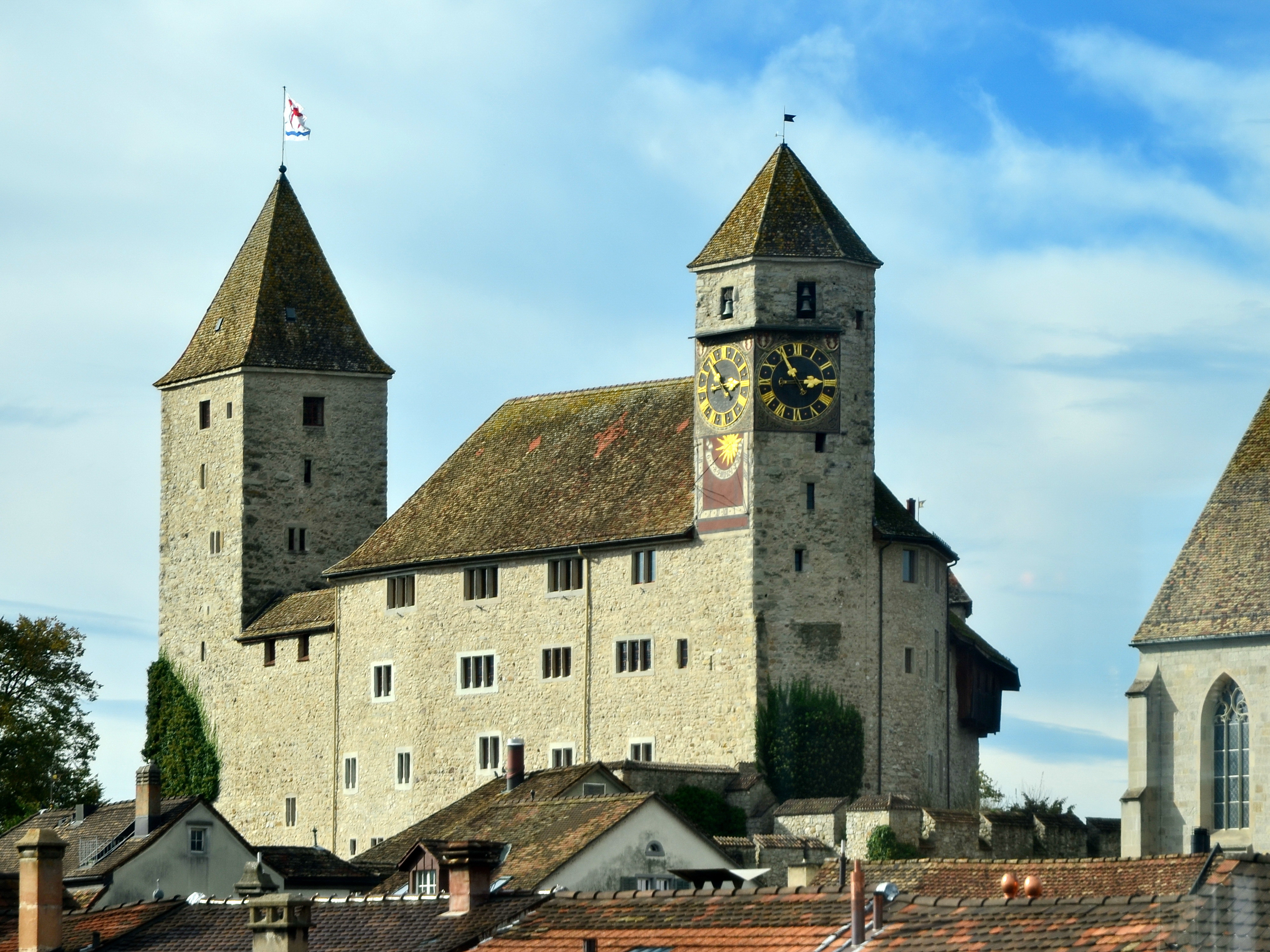 Schloss (the castle) in Rapperswil (Switzerland)